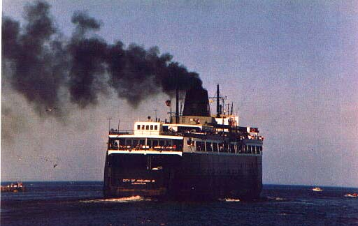 The midland sailing out of ludington near the end of her career